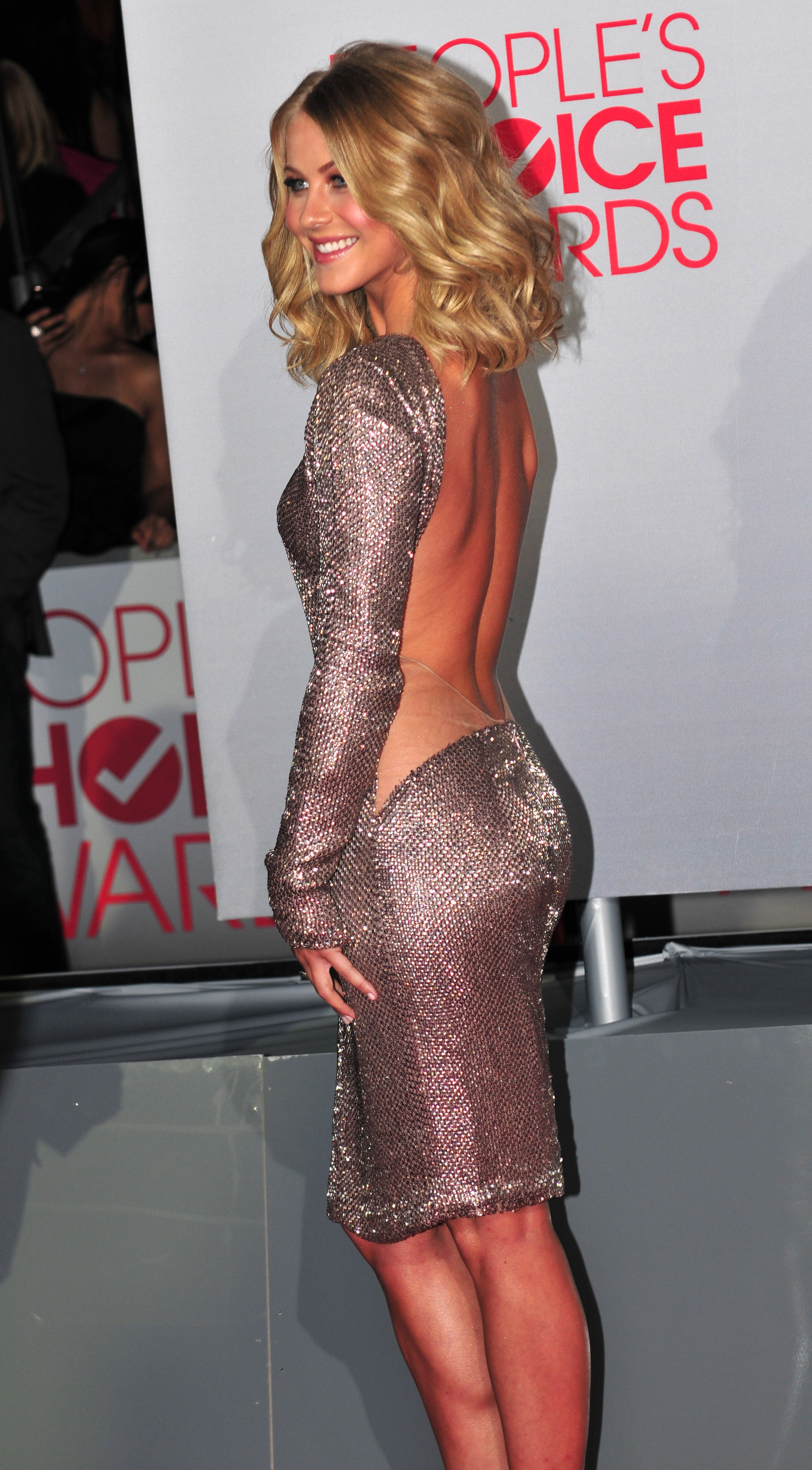 Julianne Hough on the red carpet at the 38th People's Choice Awards on January 11, 2012, at the Nokia Theatre in Los Angeles, California. (JJ Duncan/ )